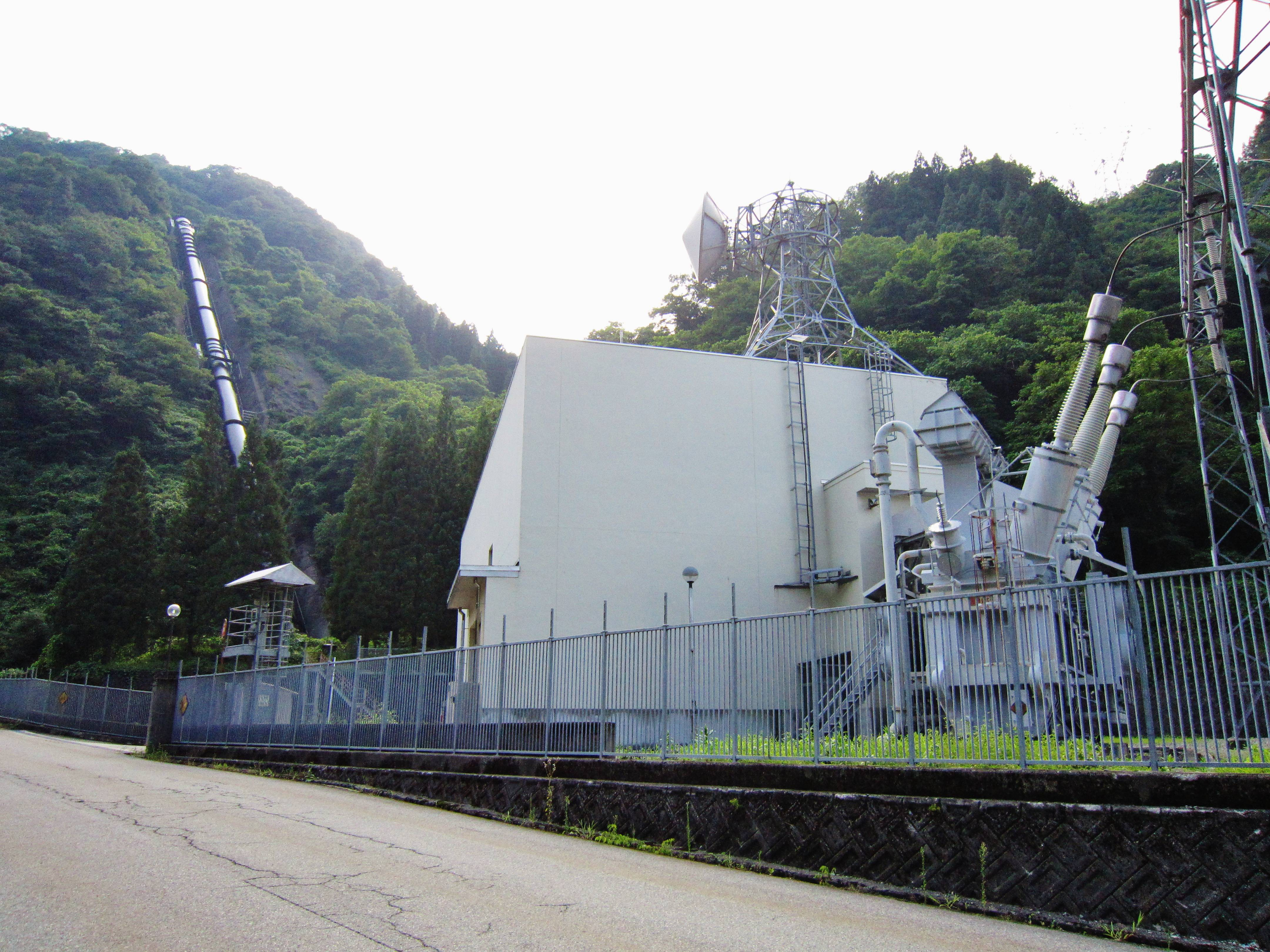 Shimokotori hydroelectric power station.